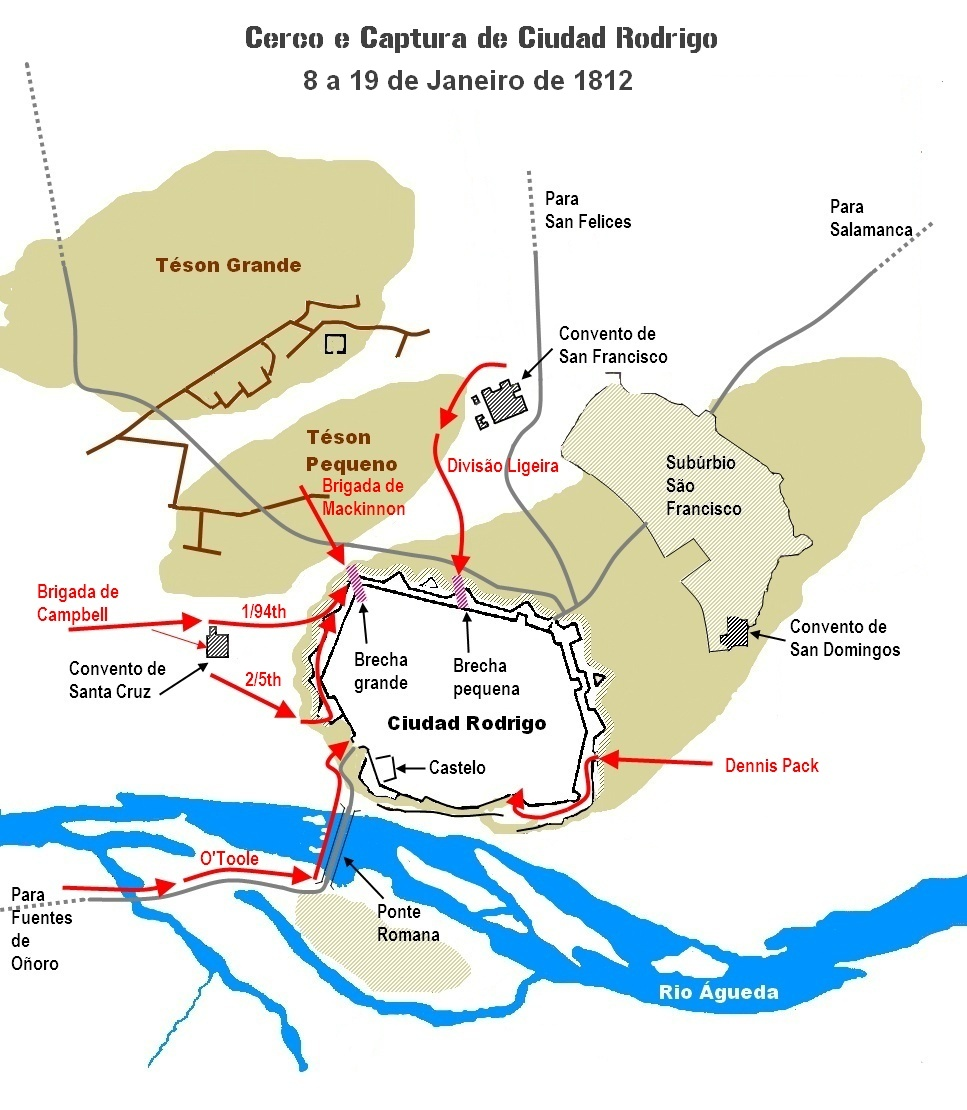 Map showing the outline of the arrangements for the siege and assault on the plaza of Ciudad Rodrigo.